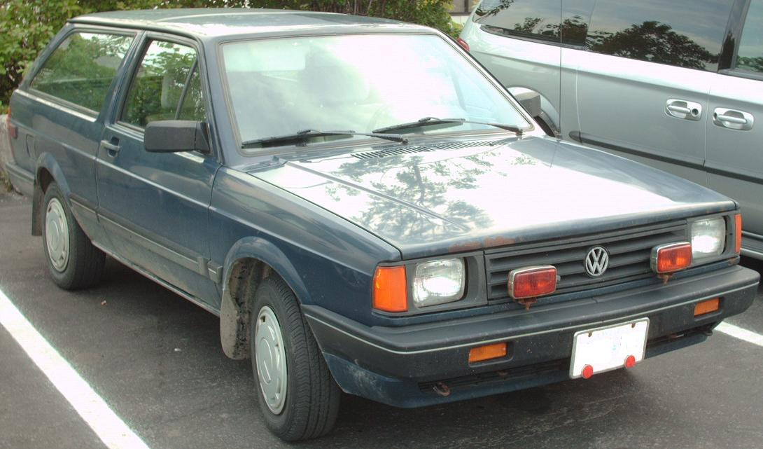 1987-1993 Volkswagen Fox photographed in Montreal, Quebec, Canada at Gibeau Orange Julep.